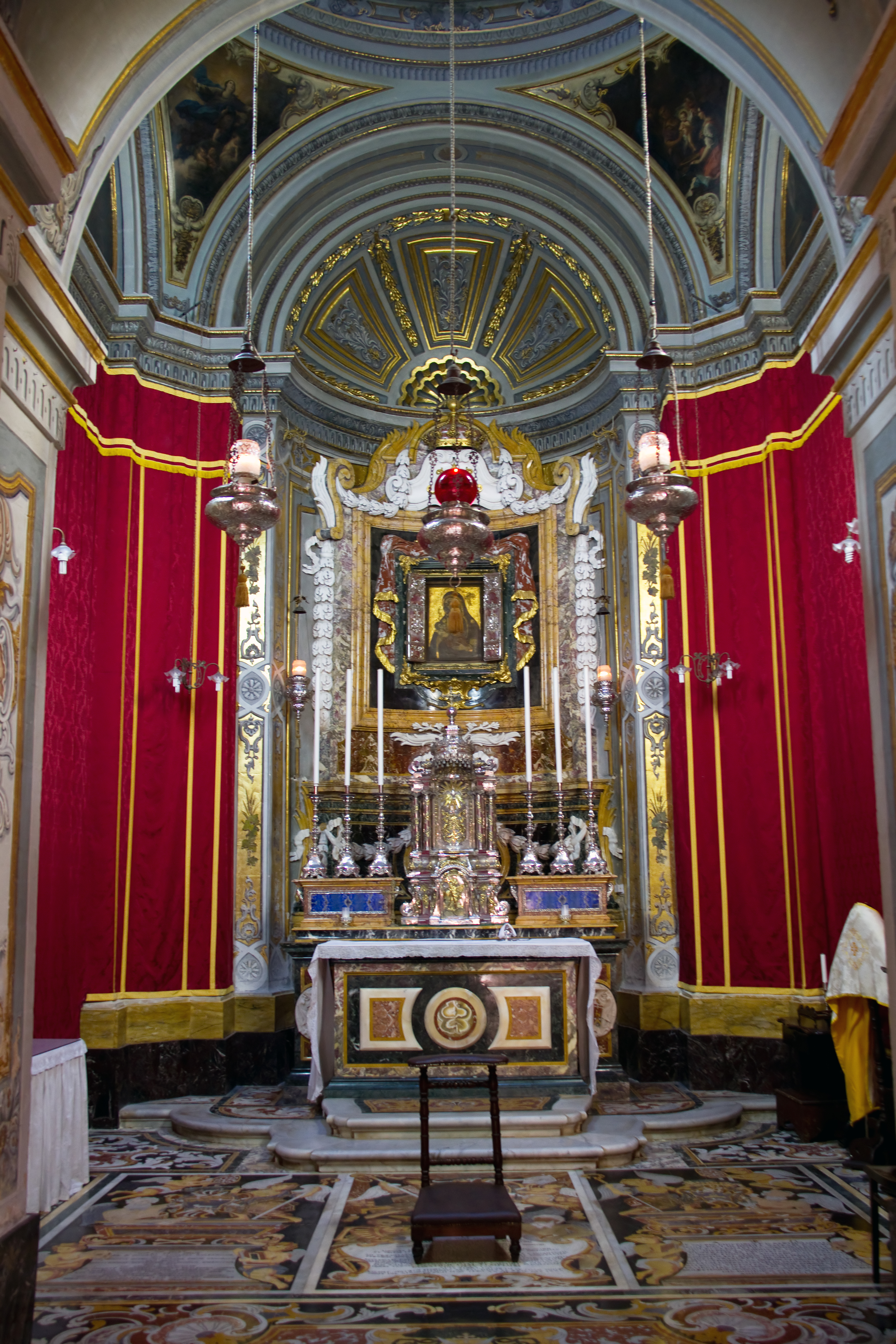 St Paul's Cathedral Interior 10